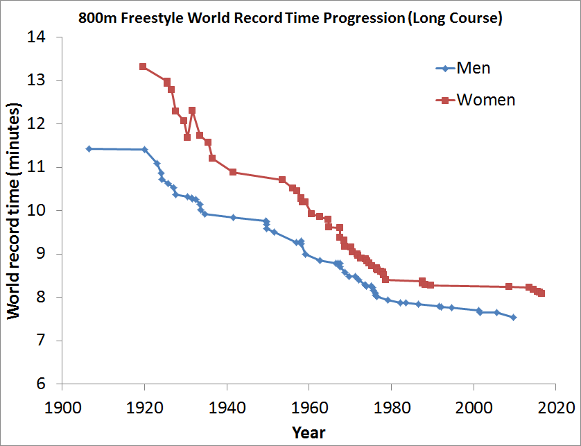 World record times by gender and year for the 800M Freestyle Swimming competition